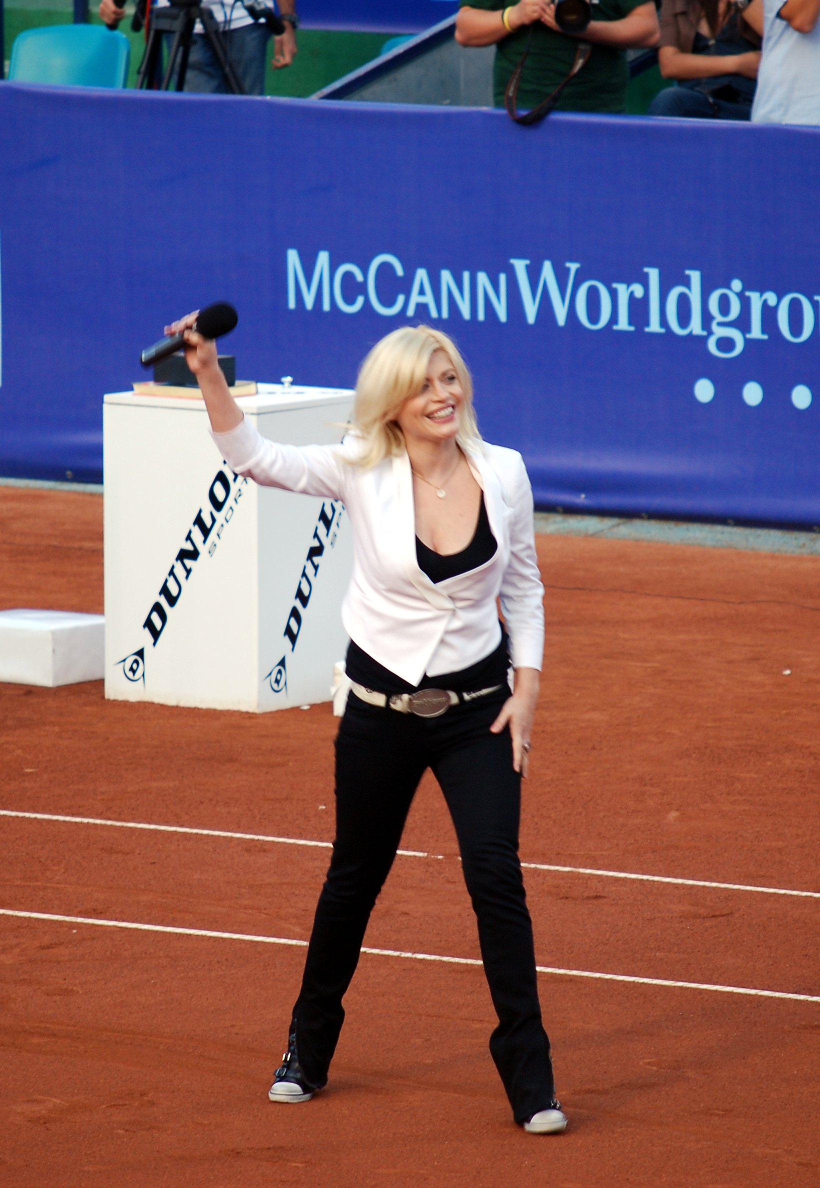 Romanian pop singer Loredana Groza at Andrei Pavel's retirement match, on the Progresul Arena.